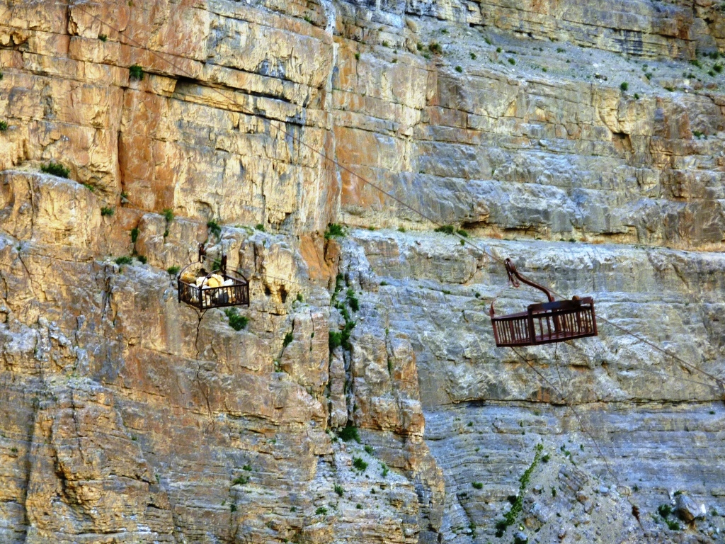 I took this photo on a trip to Ladakh in 2010